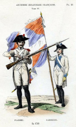 Fusilier of the Régiment de Flandre and ensign of the Régiment de Cambrésis in 1789 just before the revolution. Uniforms under the 1779 ordnance.